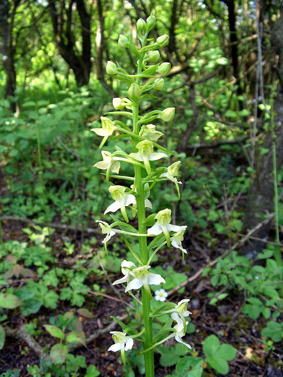 Platanthera chlorantha - flowers